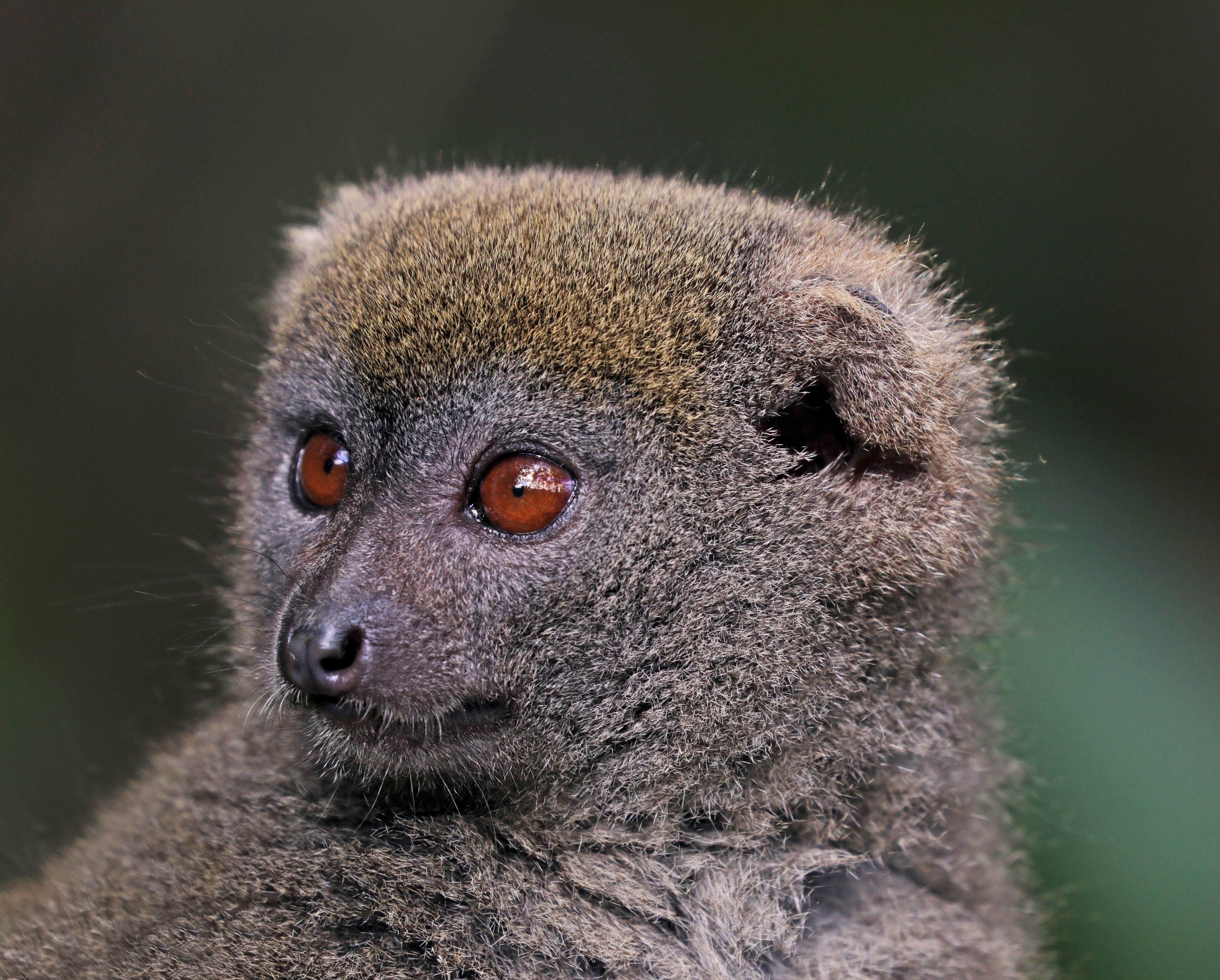 Grey bamboo lemur (Hapalemur griseus griseus), Andasibe, Madagascar